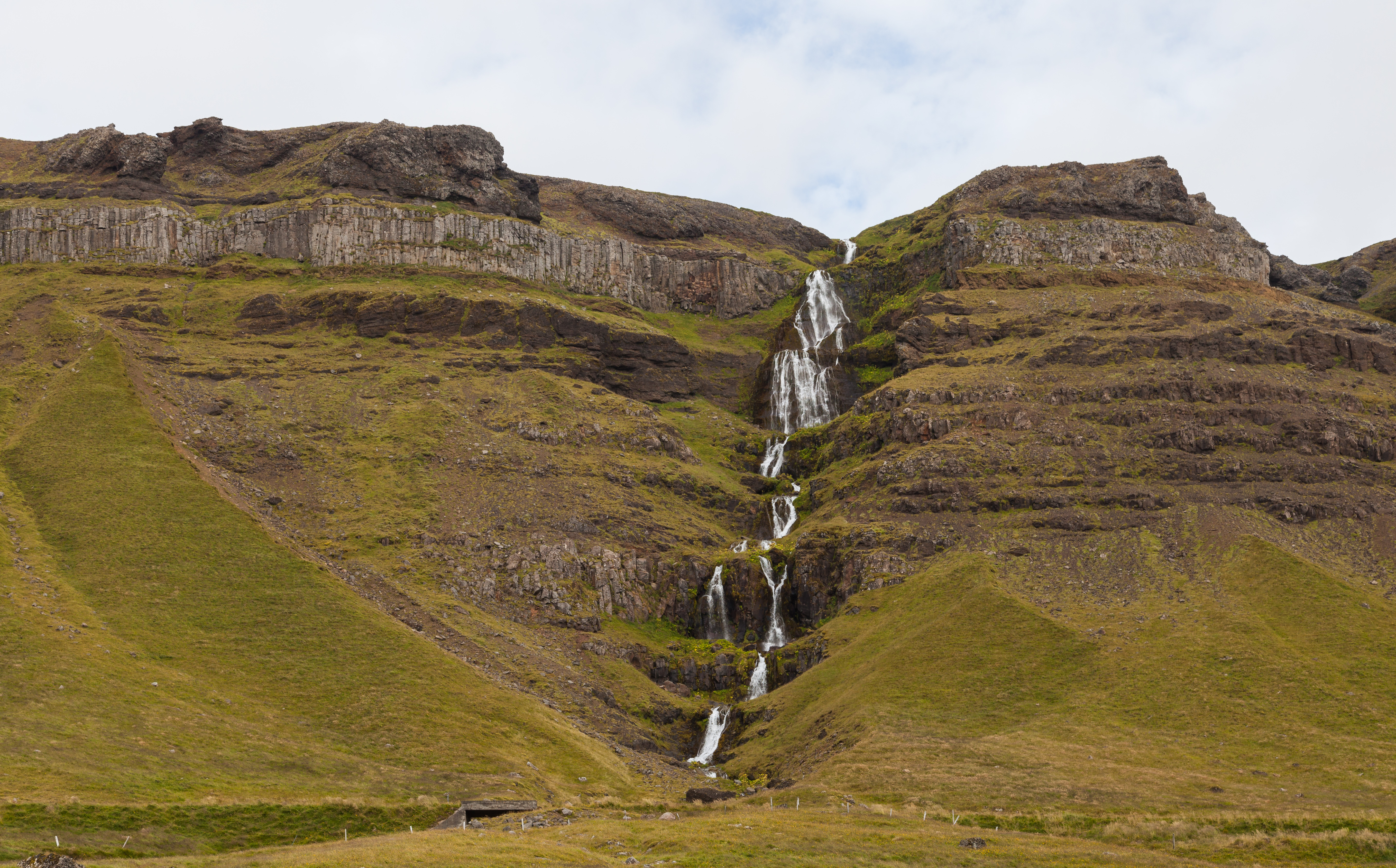 Búlandshöfði, Vesturland, Iceland